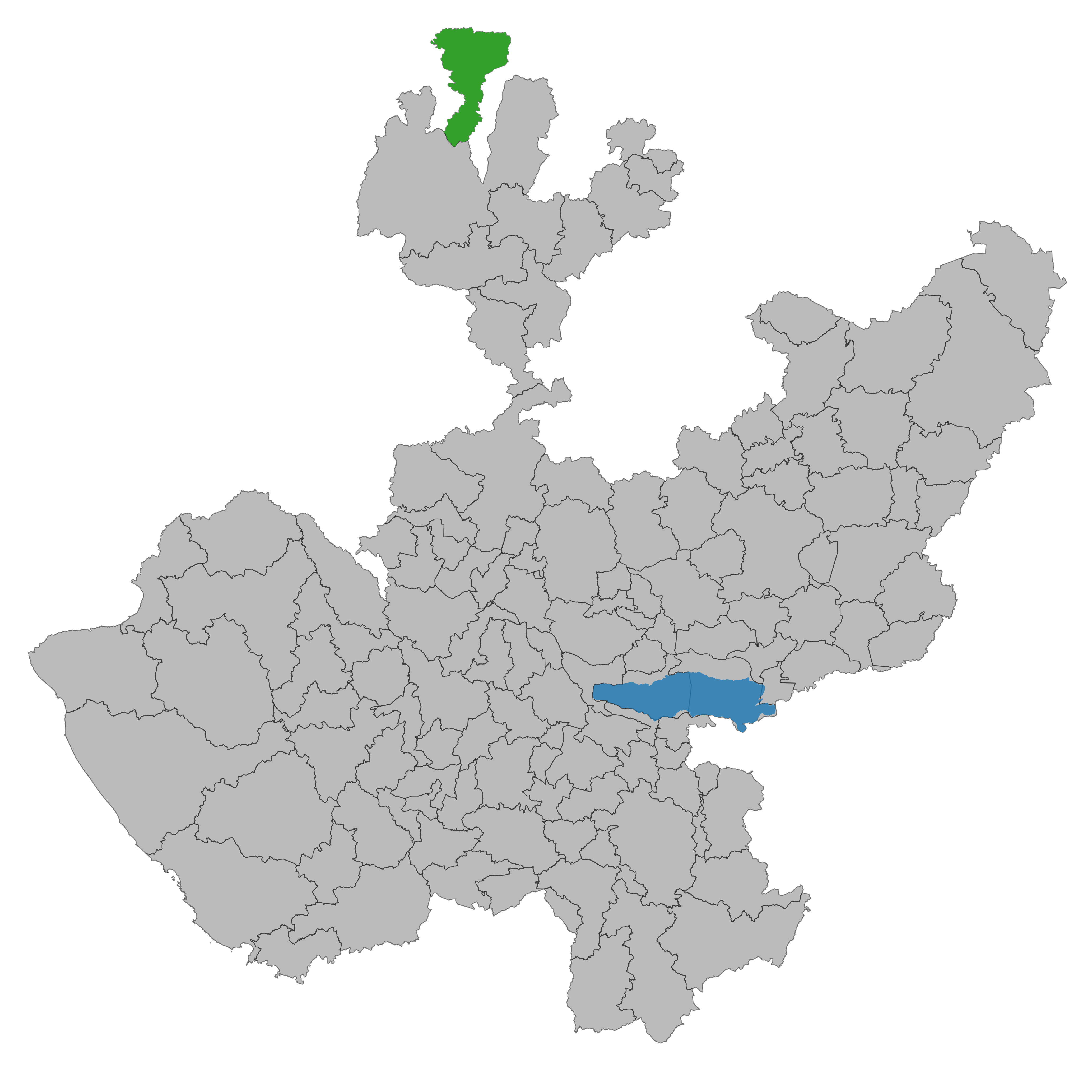 Municipality of Jalisco. Prepared with the software QGIS version 2.8.2 Wien & with information of SCINCE 2010 version 05/2013